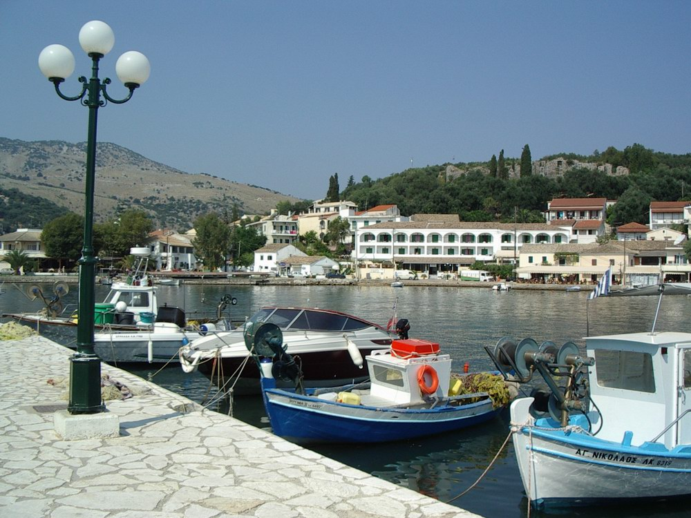 Description : Kassiopi, Corfu, Greece Author : Rémi Stosskopf Date : 26 July 2006